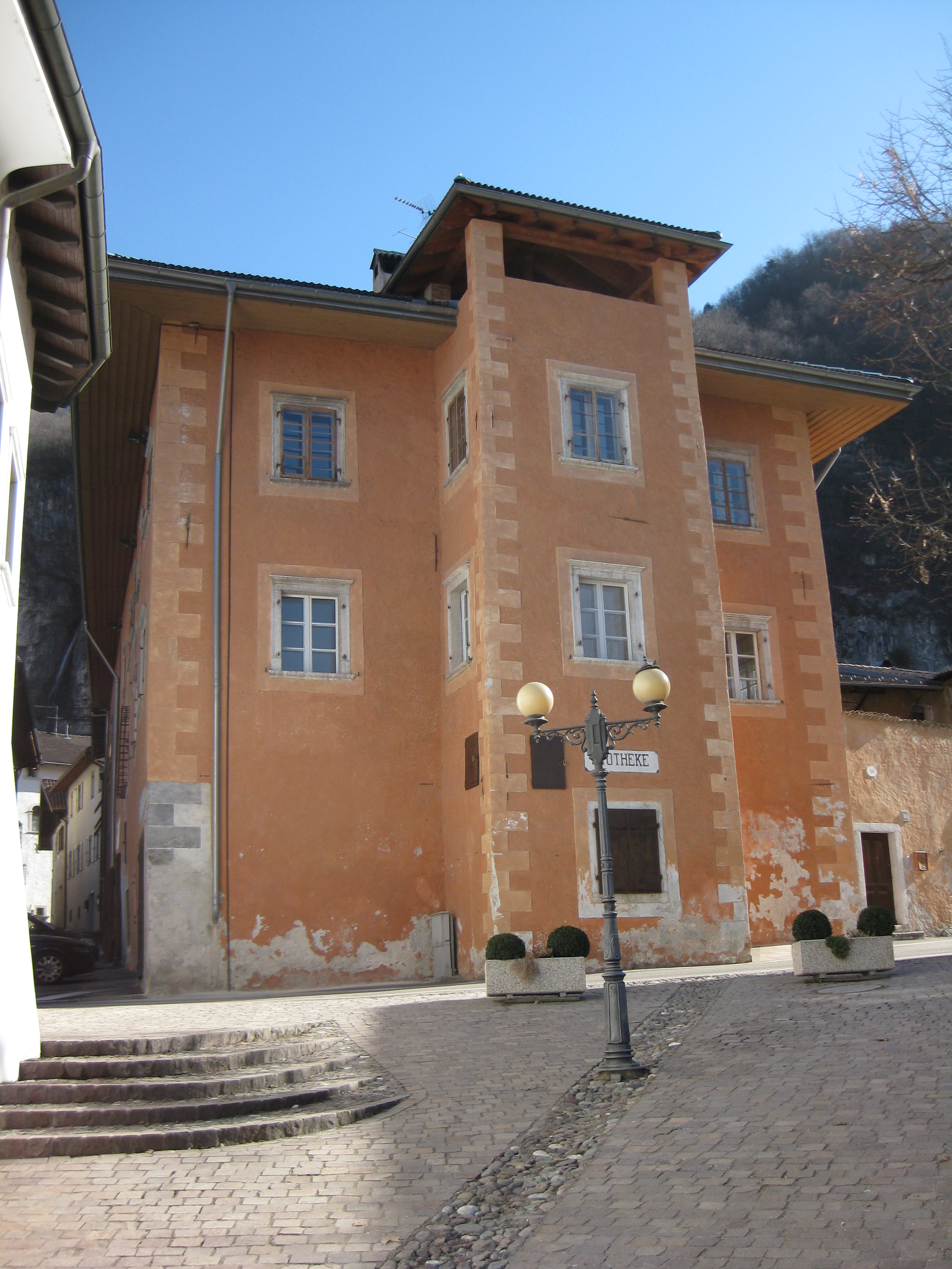 Der Ansitz von Anderlan in Salurn